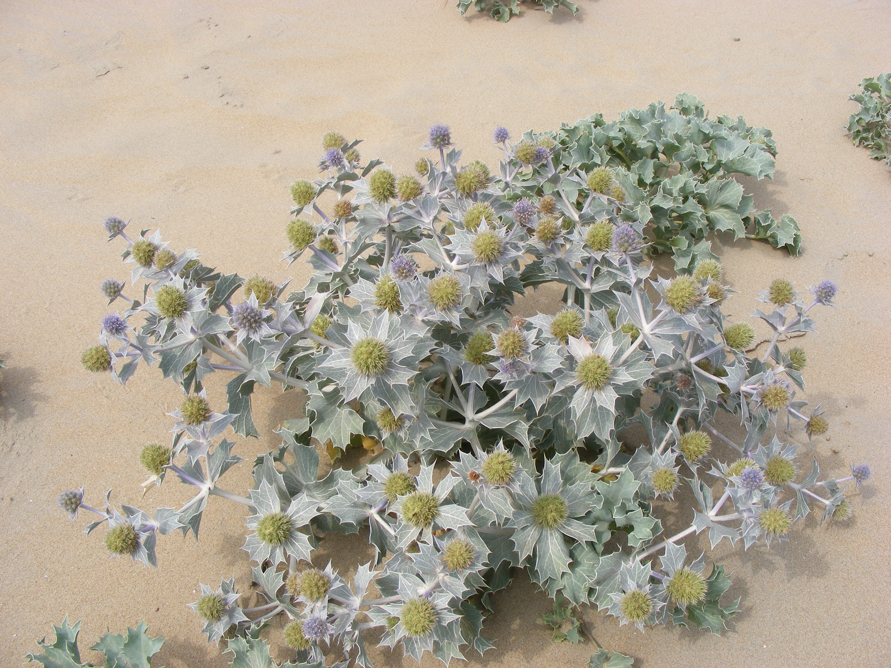 This photo shows Eryngium maritimum